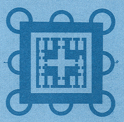 Meimoon Ghal'eh, plan of upper level. Photo by user zereshk.